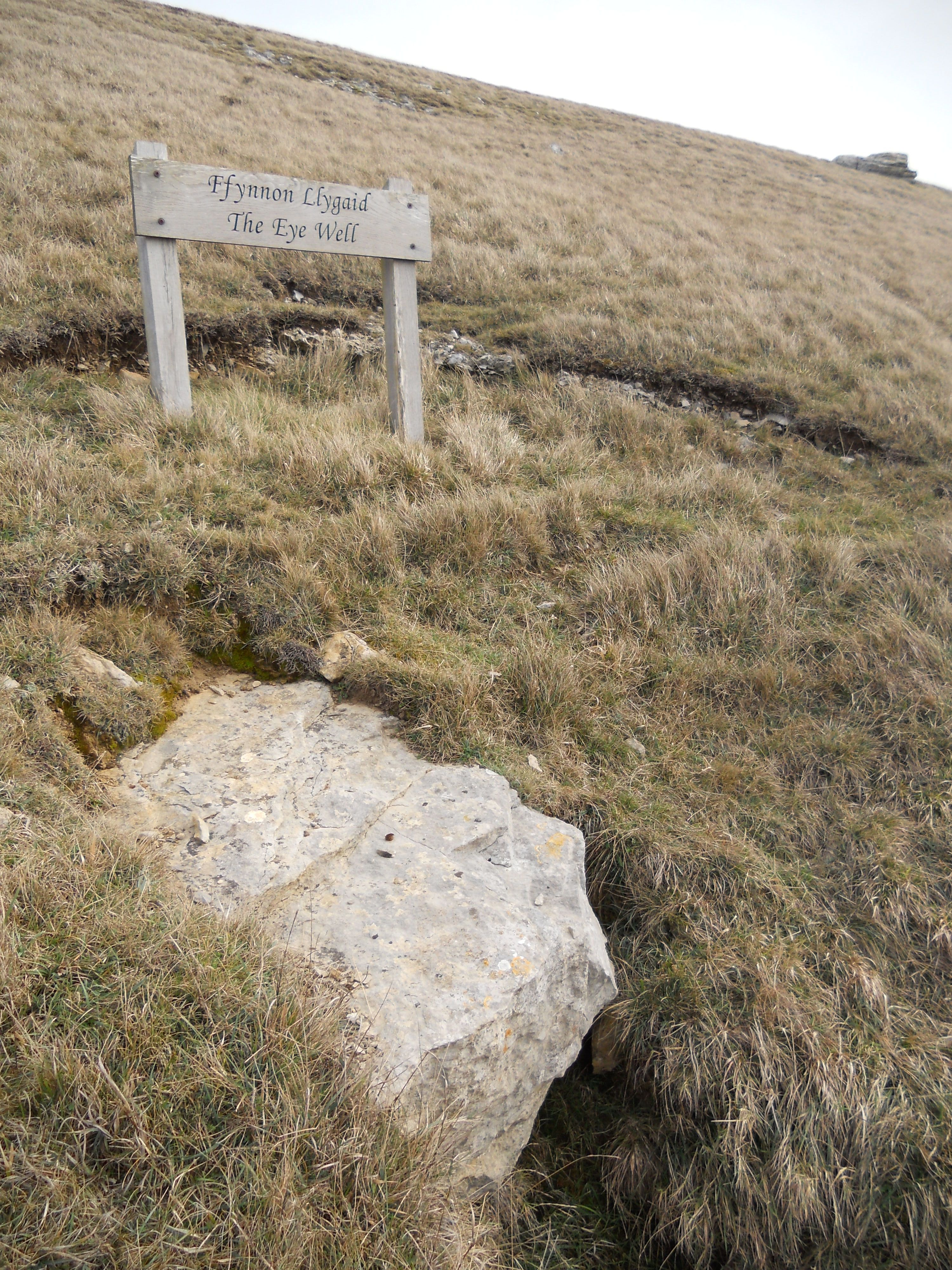 Ffynnon Llygad: one of the traditional wells of the Great Orme, Llandudno.